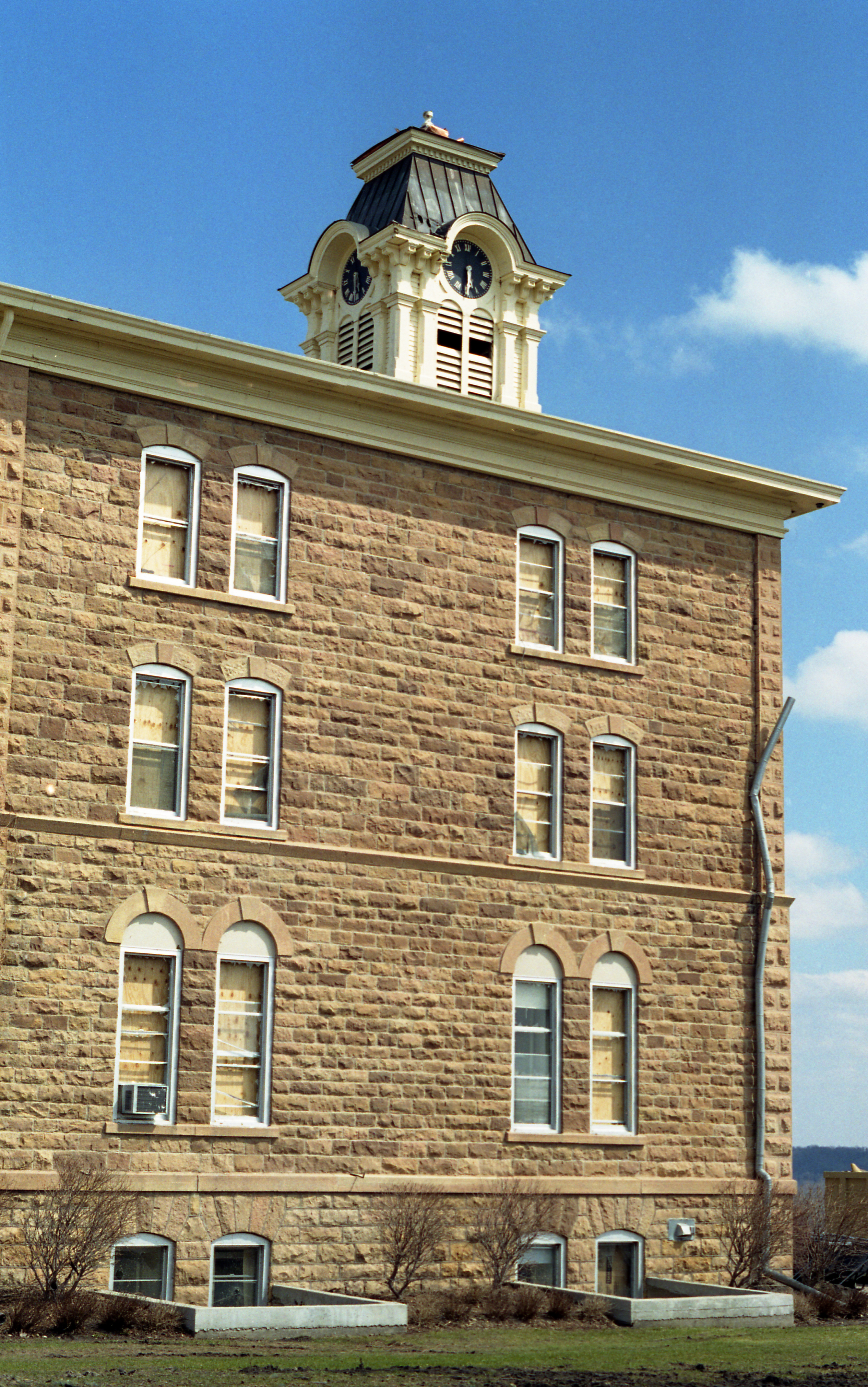 On March 29, 1998, a tornado outbreak struck the area around St. Peter, Minnesota. The Old Main building at Gustavus Adolphus College was damaged and most of its windows blown out.